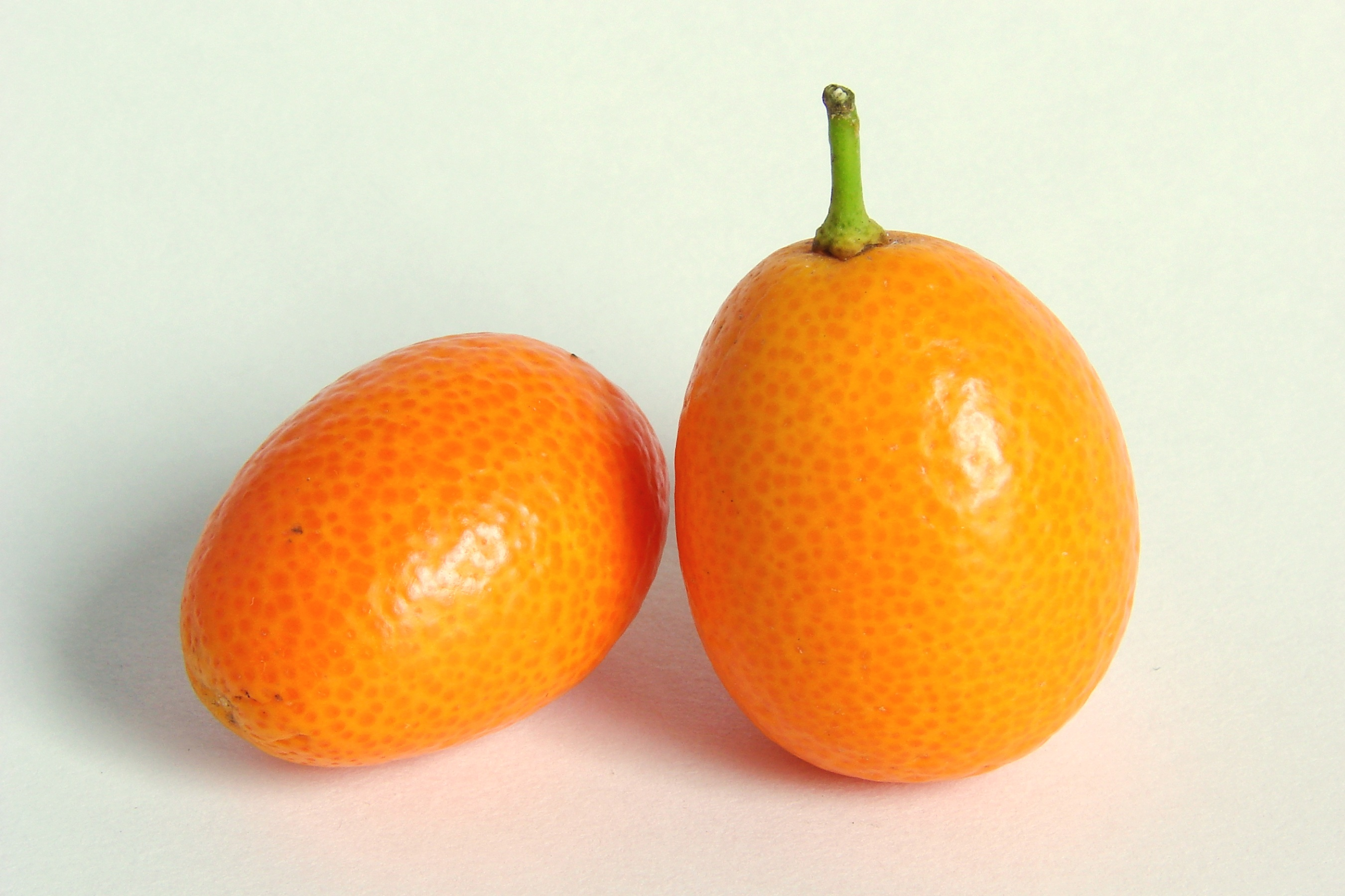 Fruits of the Oval Kumquat, Fortunella japonica, syn: Citrus japonica.